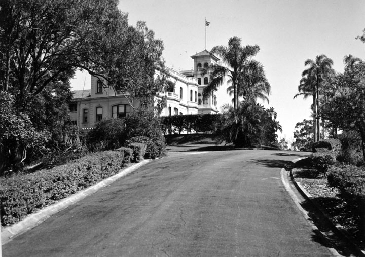 View of Government House along main drive. (Fernberg Road, Paddington. Alternative name is Fernberg.)